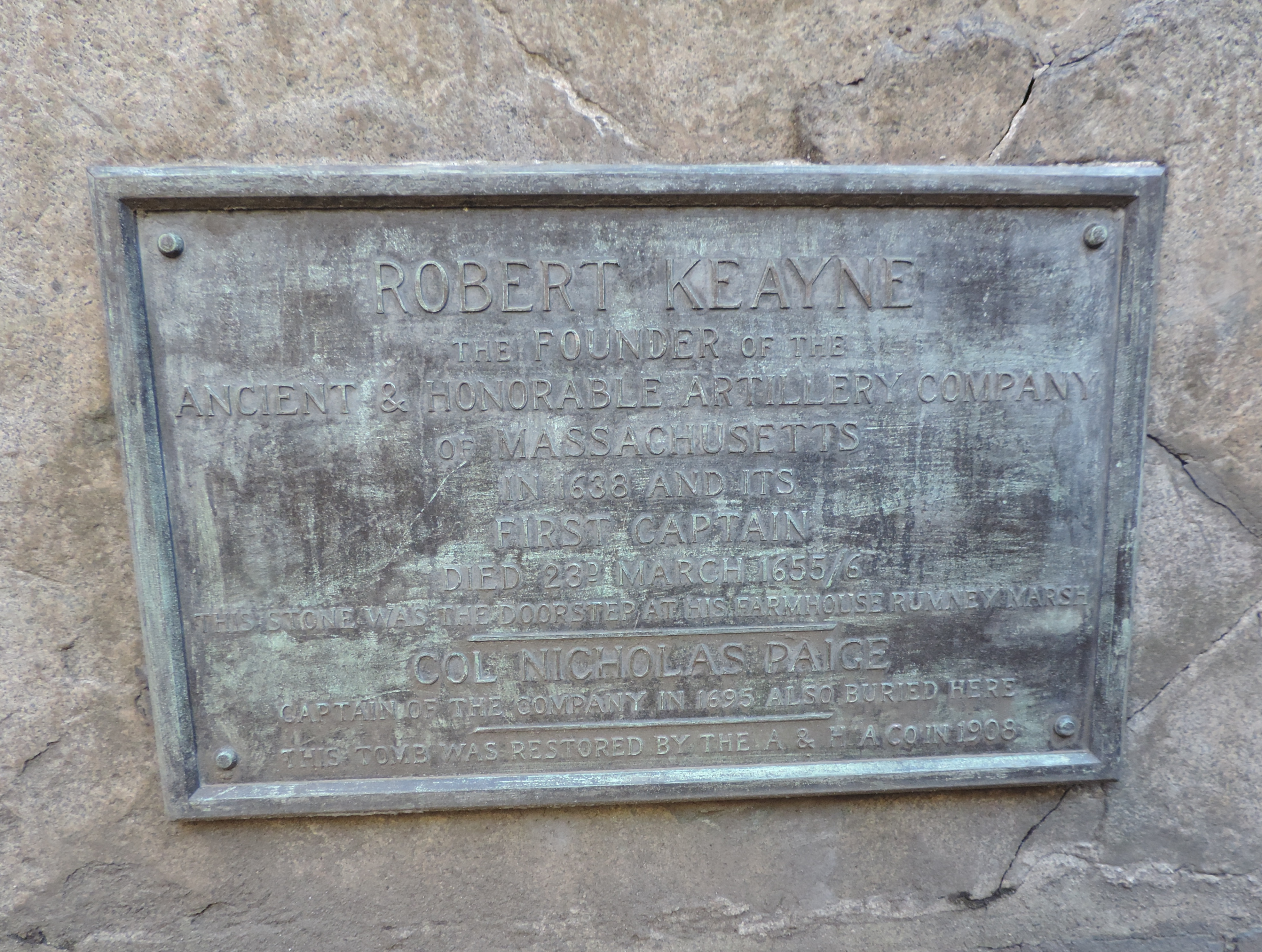 Memorial plaque for Robert Keayne on brick vault in Kings Chapel Burying Ground, Boston